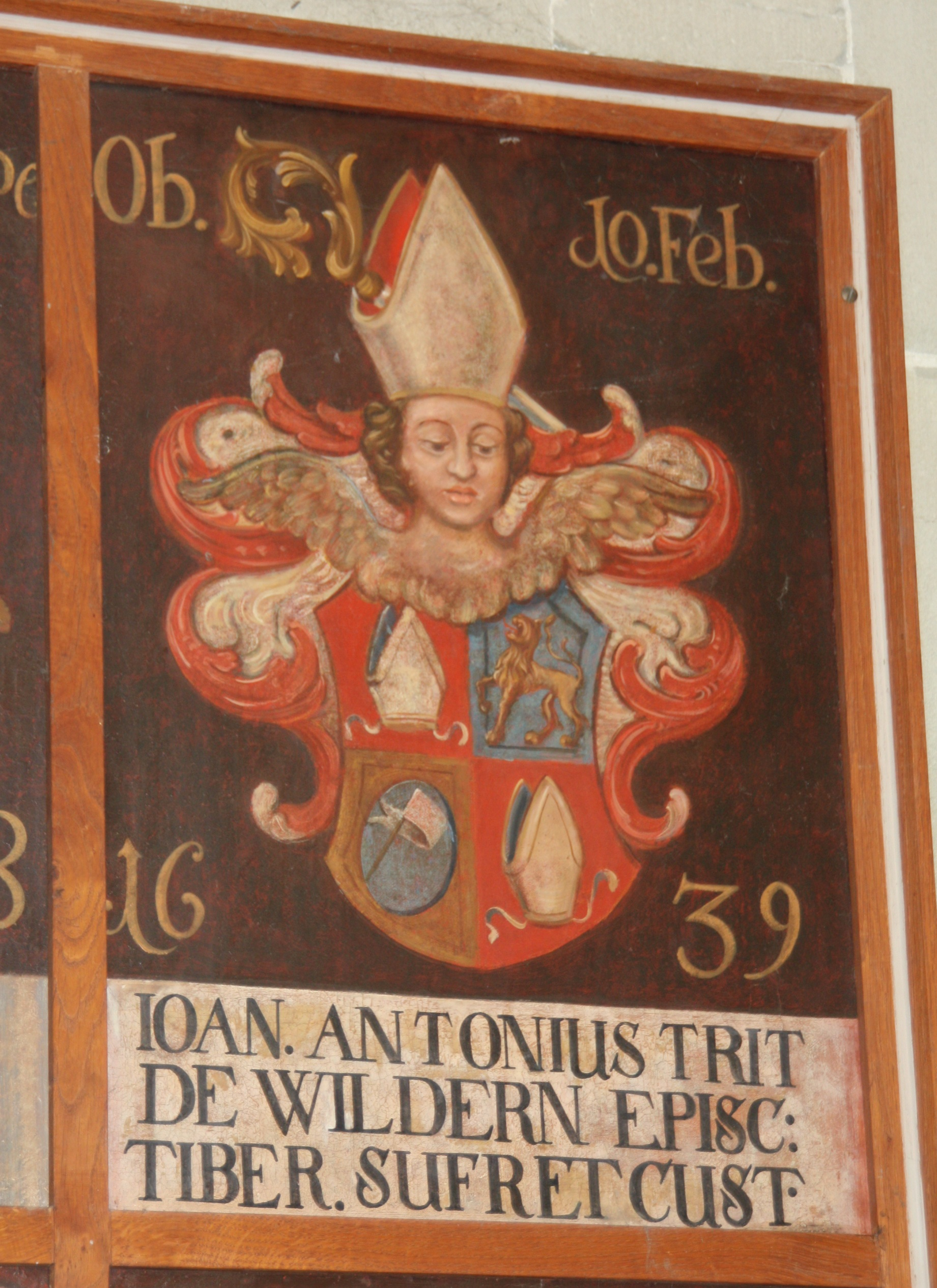 Epitaph of Johann Anton Tritt von Wilderen, auxiliary bishop of Constance, Germany, at the Cathedral of Constance